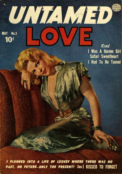 Comic book cover of Untamed Love #3 (May 1950)